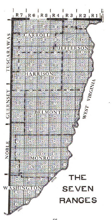 a tract of land in Ohio called the Seven Ranges.